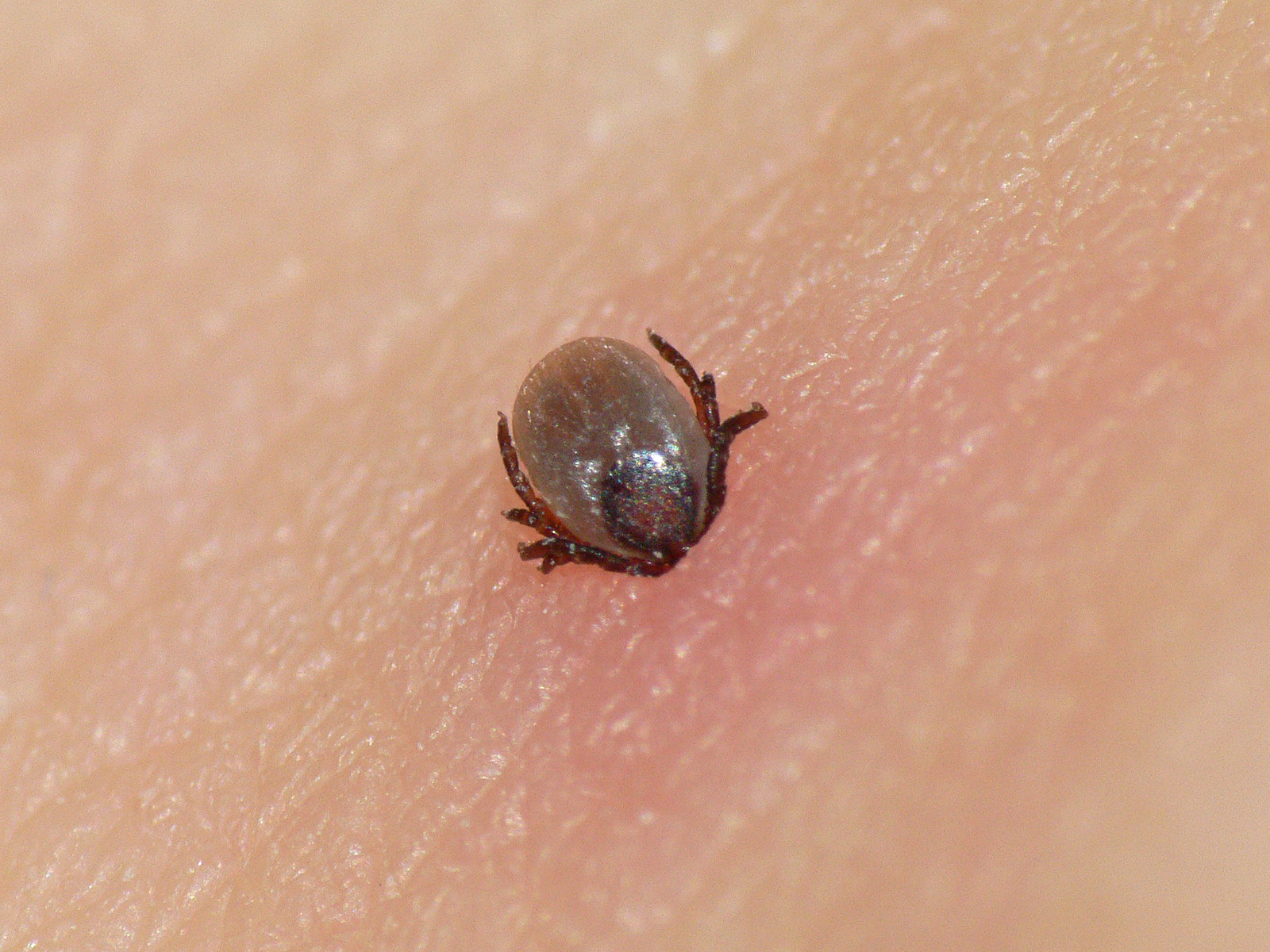 Picture of a female tick found on human's skin.